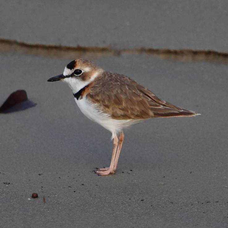 Collared Plover at Itaguaré Beach - Bertioga -São Paulo - Brasil